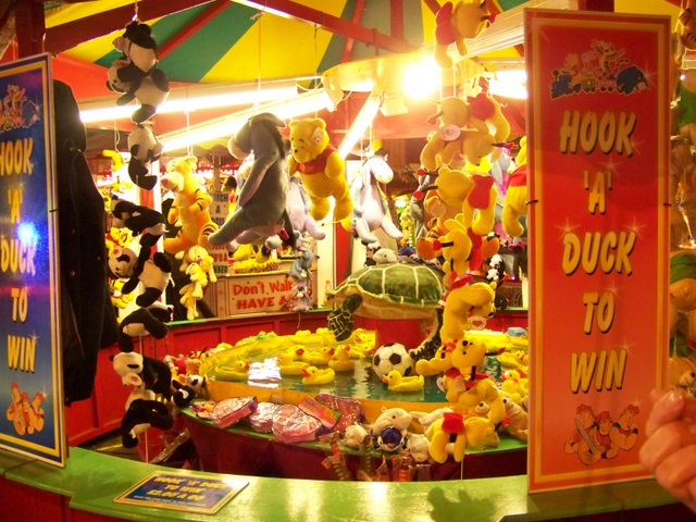 Hook a duck to win, Salisbury Just one of the stalls at the annual funfair that takes place in the Market Square.